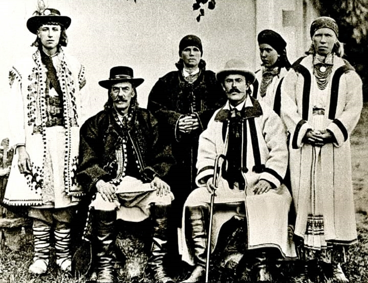 Boykos. Subethnic group of Western-Ukrainian highlanders from the Carpathian mountains.